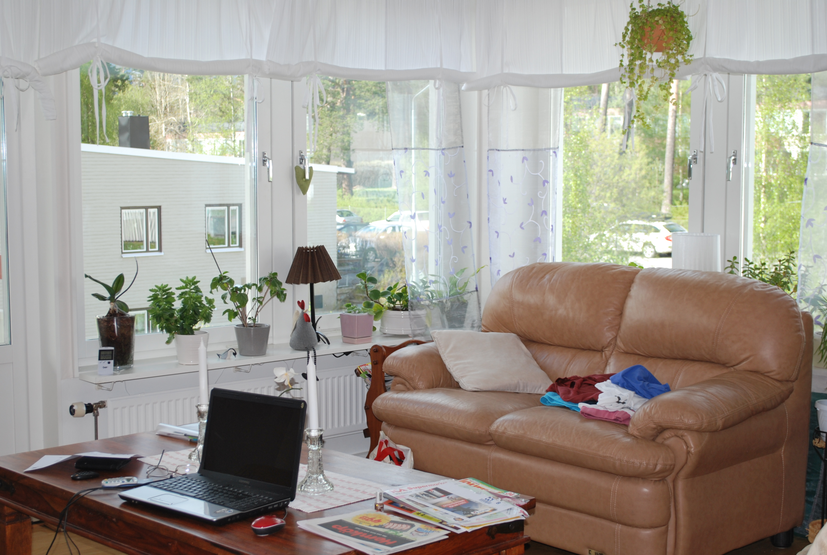 Living room.